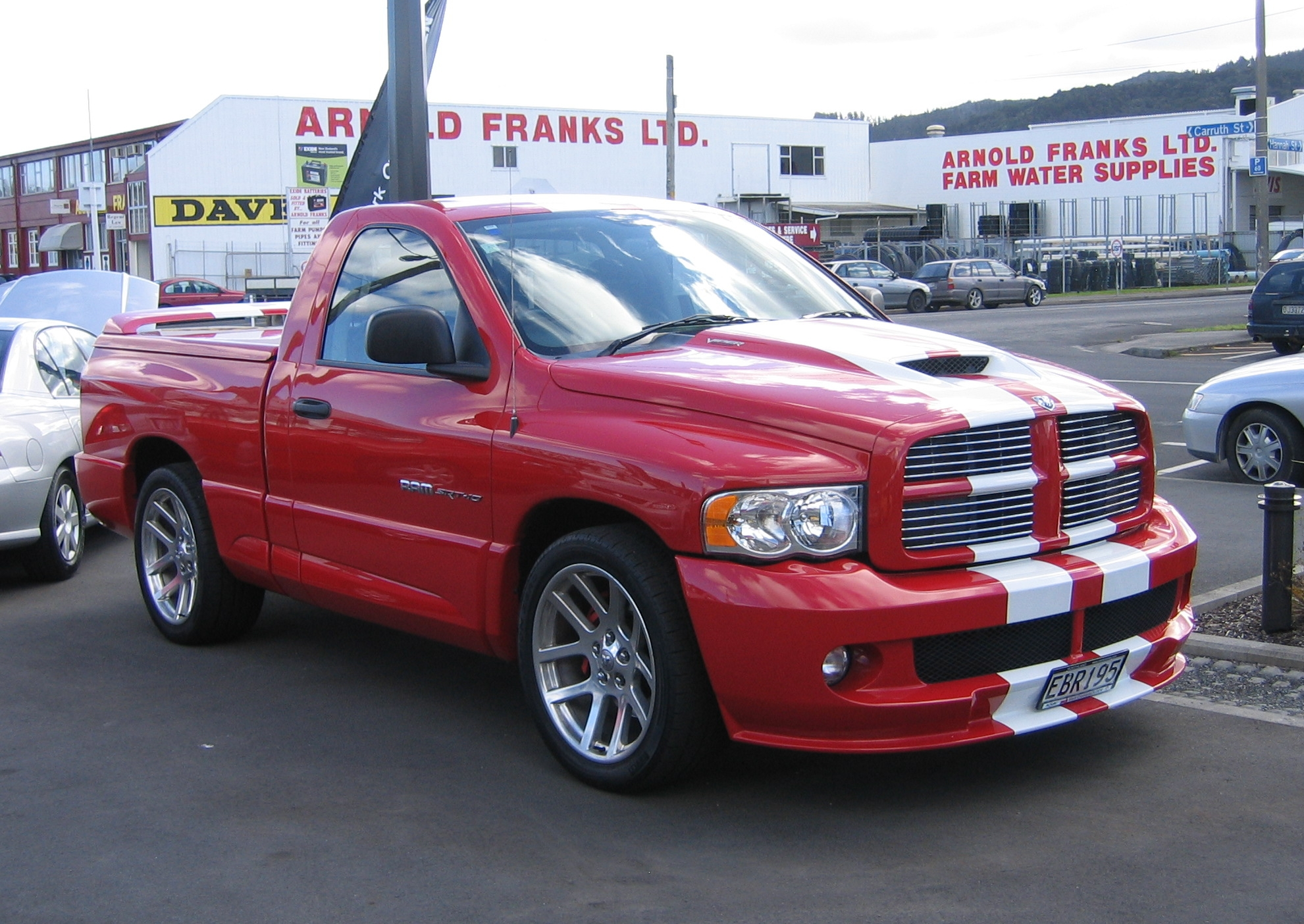 The Dodge Ram SRT was created by DaimlerChrysler's PVO (Performance Vehicle Operations) division, using Dodge Viper and Chrysler Prowler engineers.